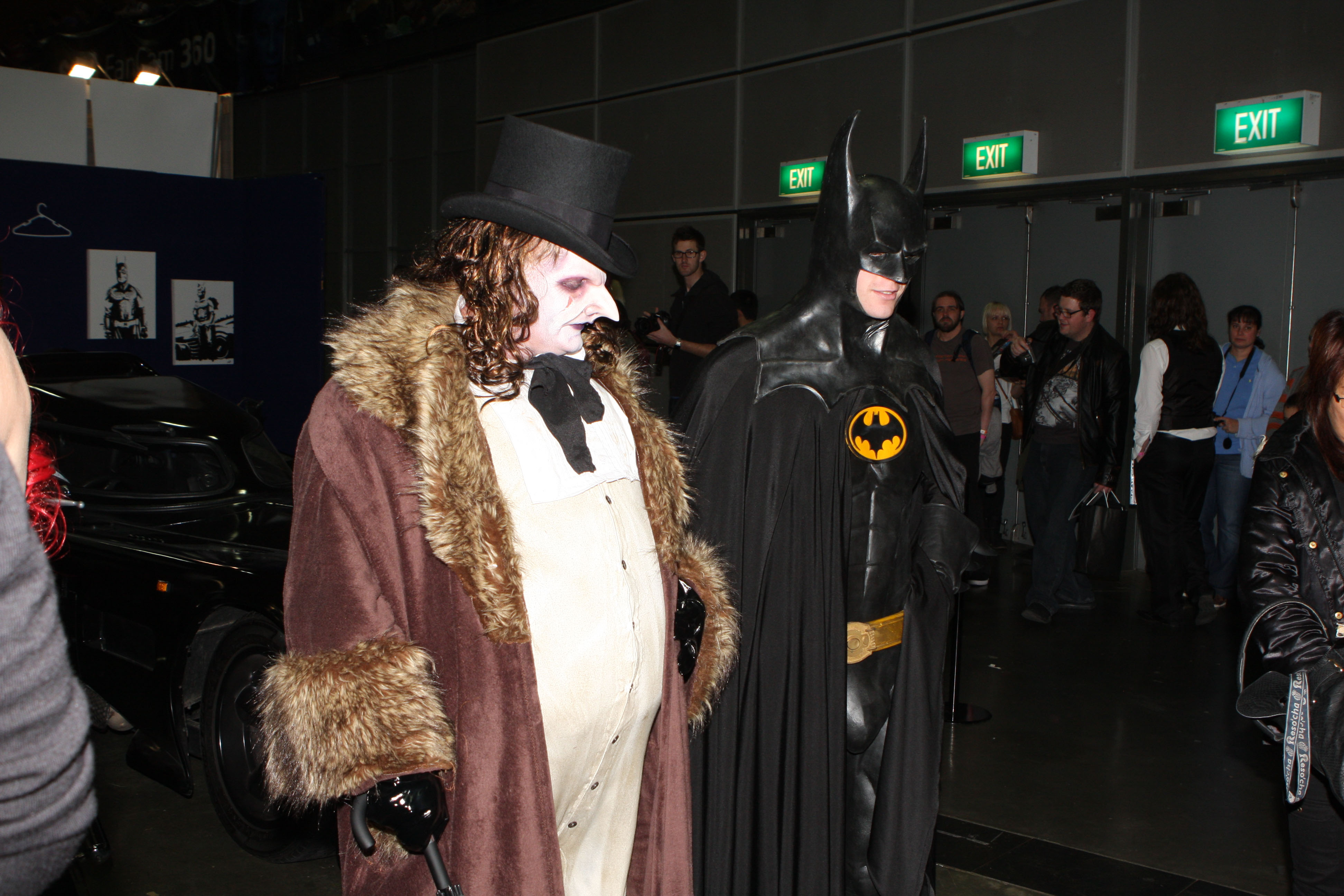 Batman and the Penguin at Supanova Pop Culture Expo 2014